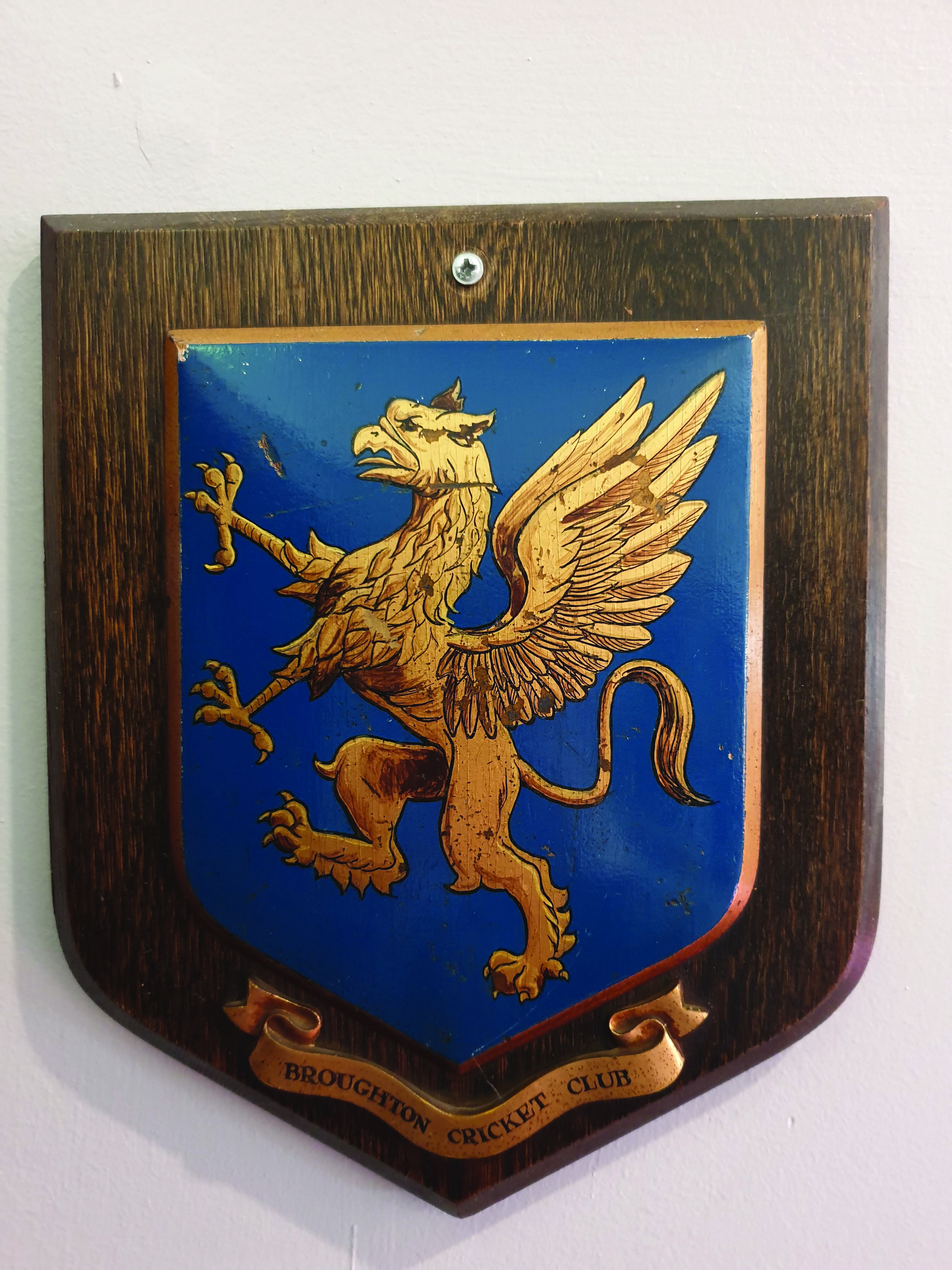 plaque